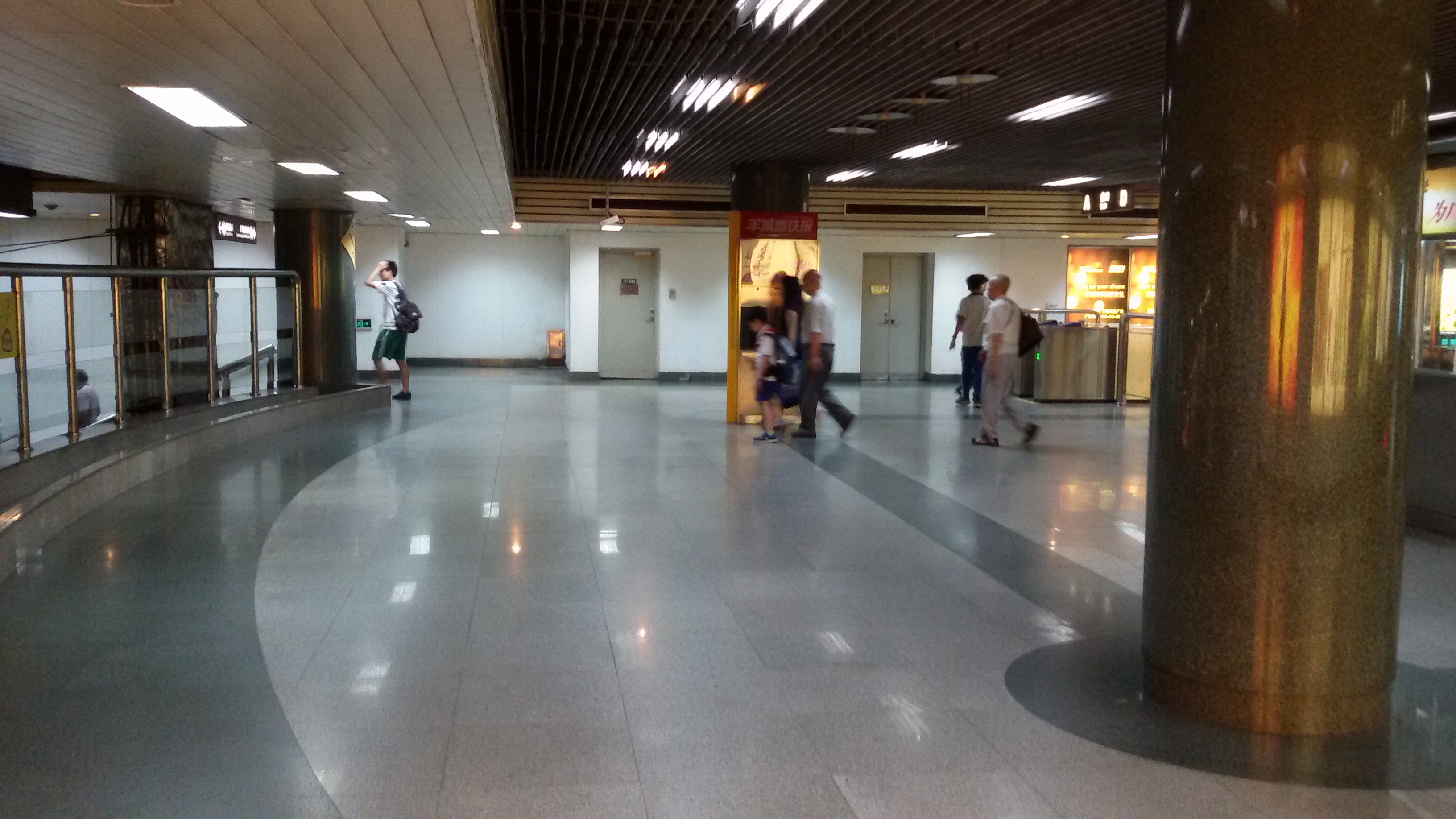 Station Hall for Huadiwan Station